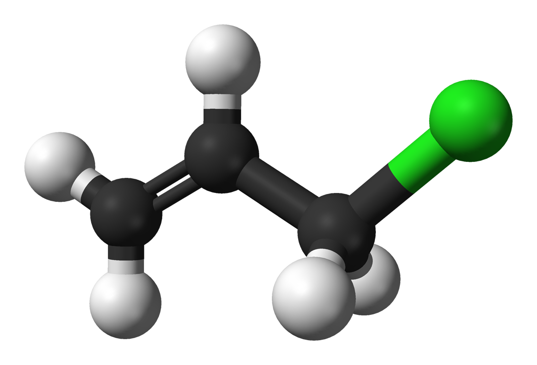 Ball-and-stick model of the allyl chloride molecule